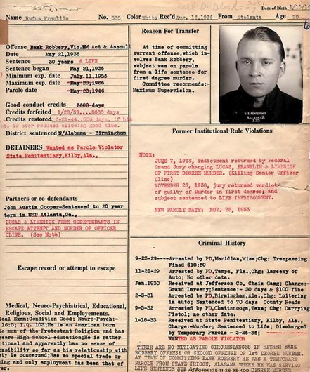 Rufus "Whitey" Franklin, American criminal who served a life sentence in Alcatraz. Franklin was the third inmate to attempt an escape from "The Rock".